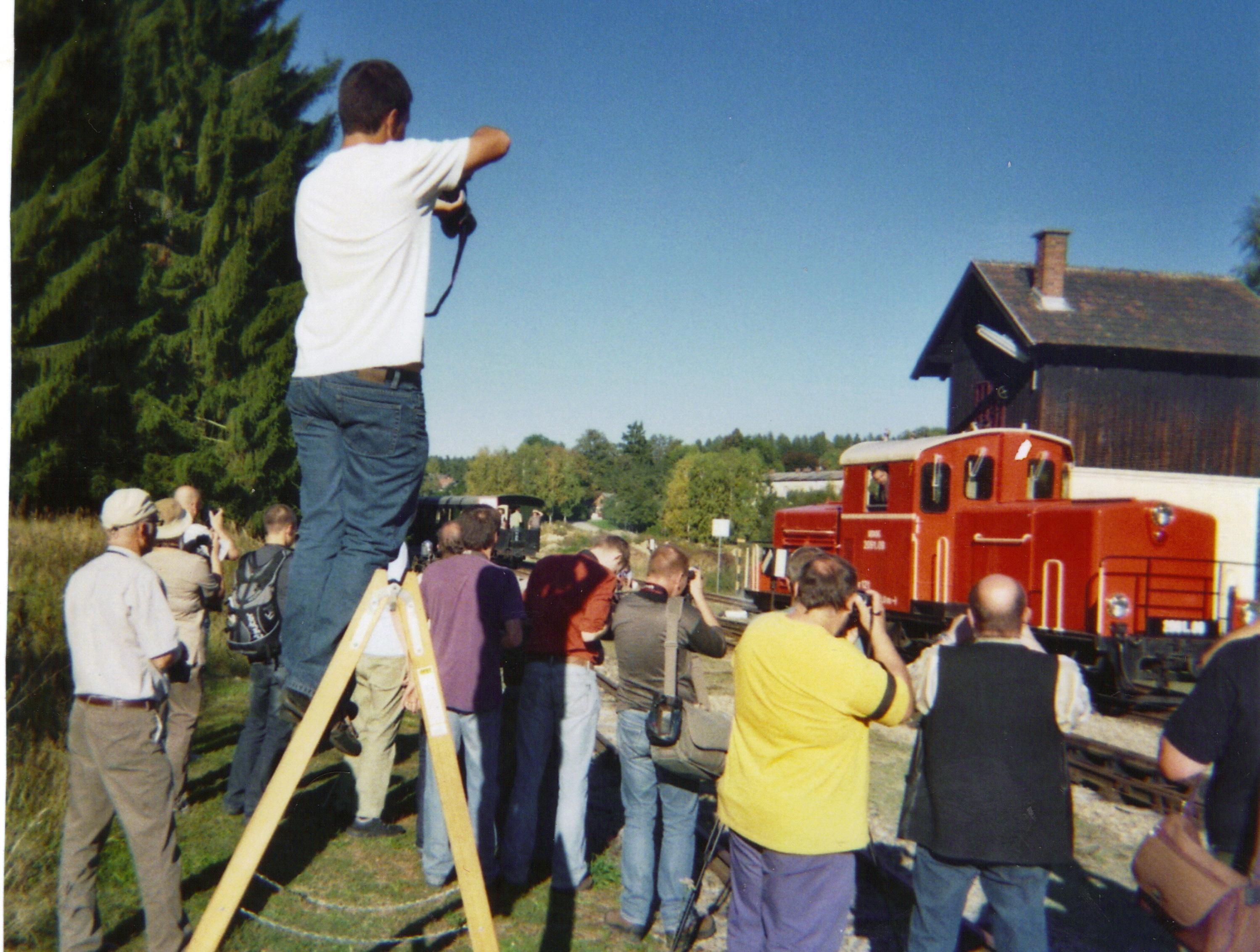 Train lovers take pictures of old diesel engine (from 1938) on excursion trip of Waldviertel railway